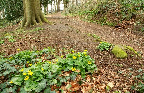 Celandine, Killynether Wood Celandine growing by one of the paths in Killynether Wood.